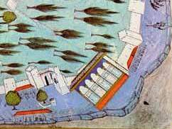 Detail of the Third Court of the Topkapı Palace, showing the lost Marble Kiosk (Mermer Köşkü) and Cannon Gate (Top kapı). Ottoman miniature painting of the Hünername, kept at the Topkapı Sarayı Müzesi, Istanbul (Inv. 1523/231b-232°).